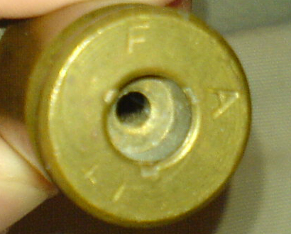 A .50 caliber cartridge case with the Frankford Arsenal headstamp. I made this file myself. I took the photograph, and it is my shell casing.